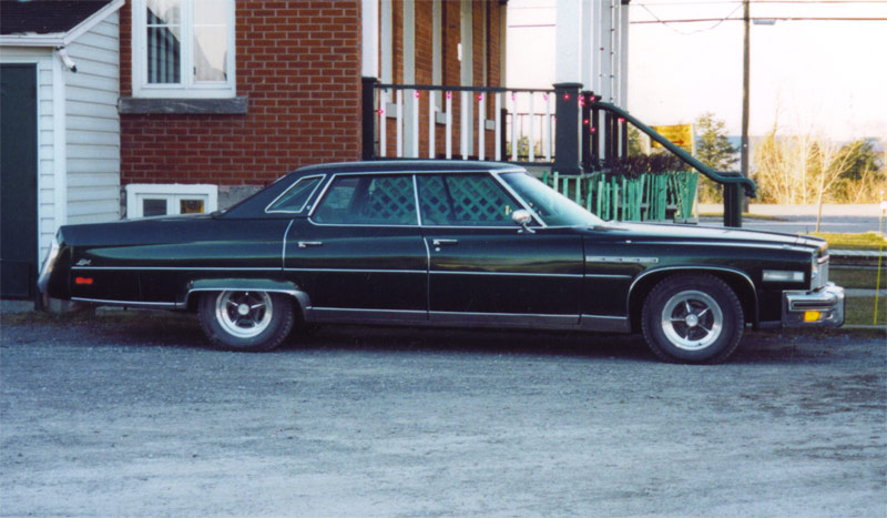 1976 Buick Electra Limted; fr.wikipedia; PD Licensing Image:1975-Buick-Electra-Limited.jpg